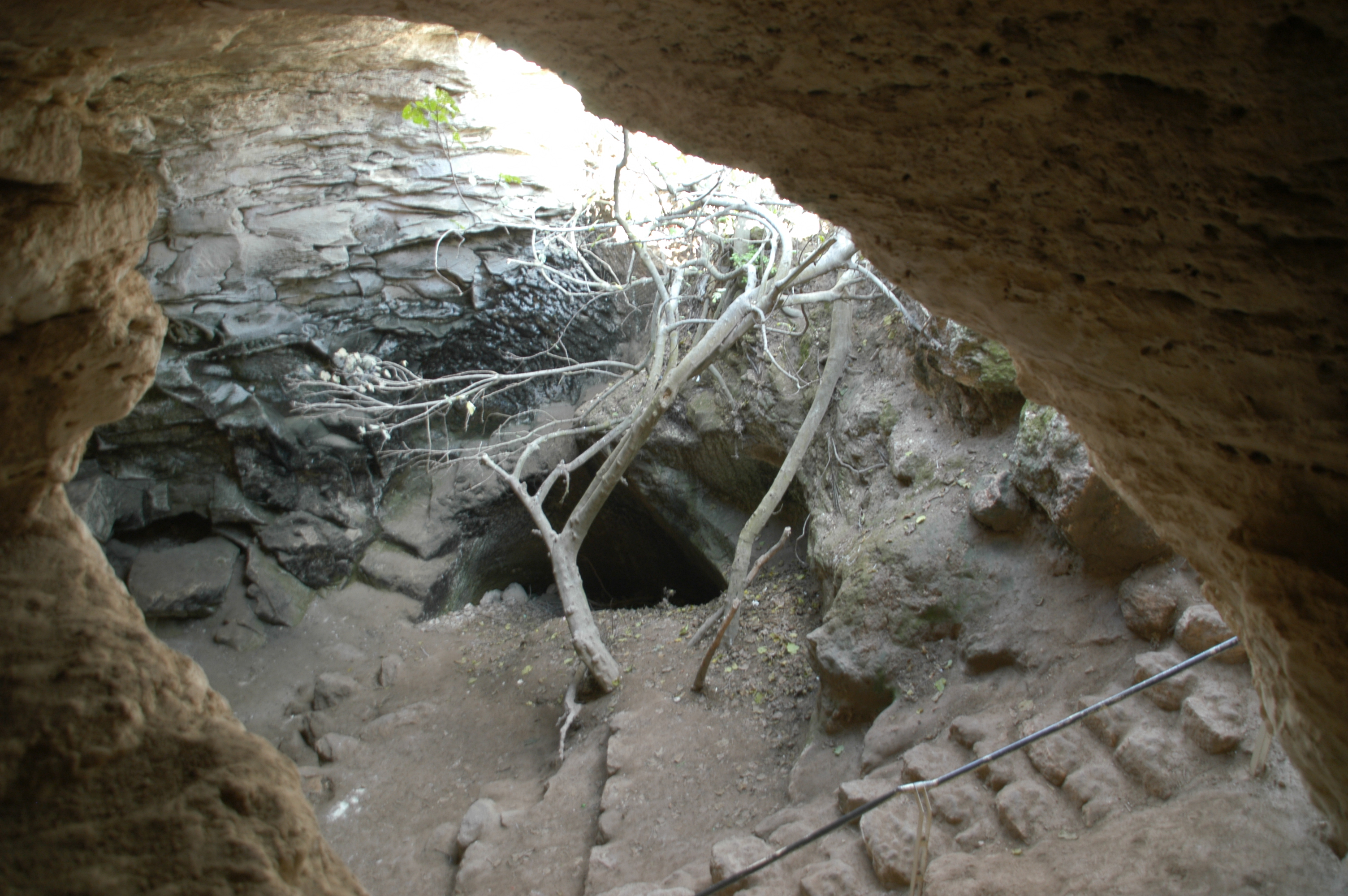 Entrance to a cave used by Bar Kochba rebels